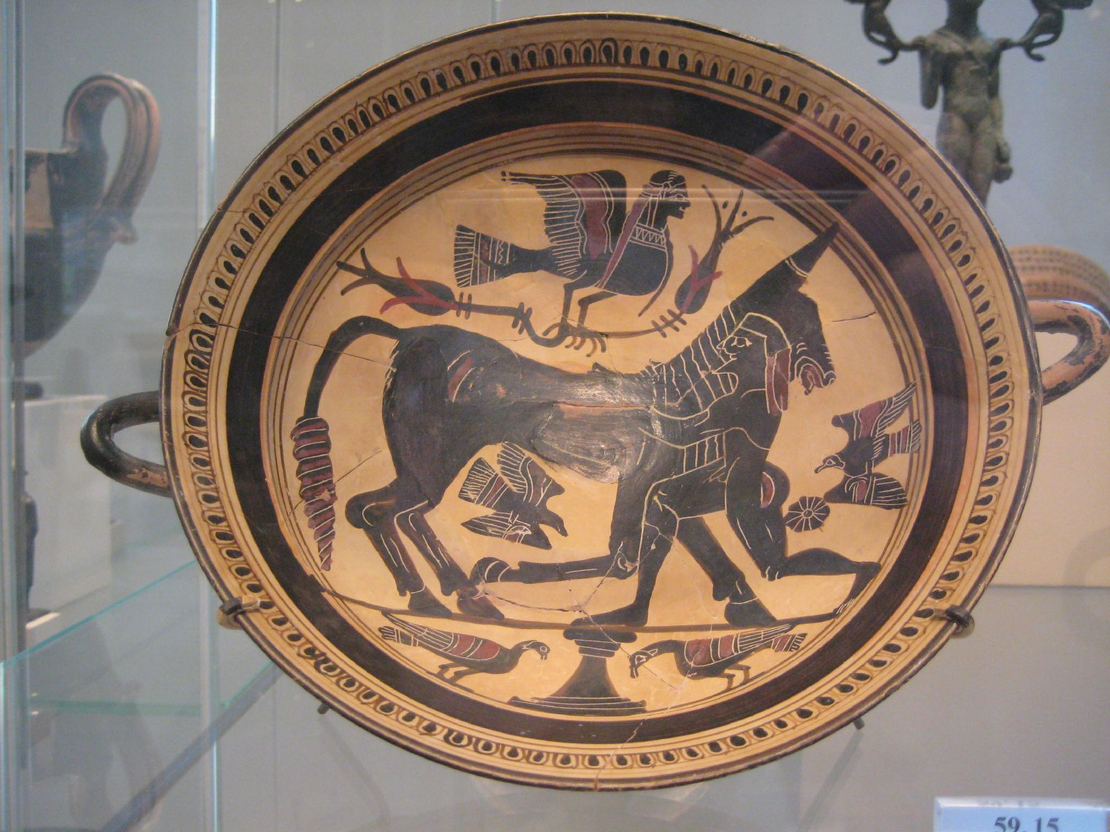 Heracles fighting the Cretan bull, while a siren perches on a branch. Laconian black-figure kylix in the manner of the Arkesilas Painter, ca. 550 BC. Metropolitan Museum of Art, New York, Inv. 59.15.